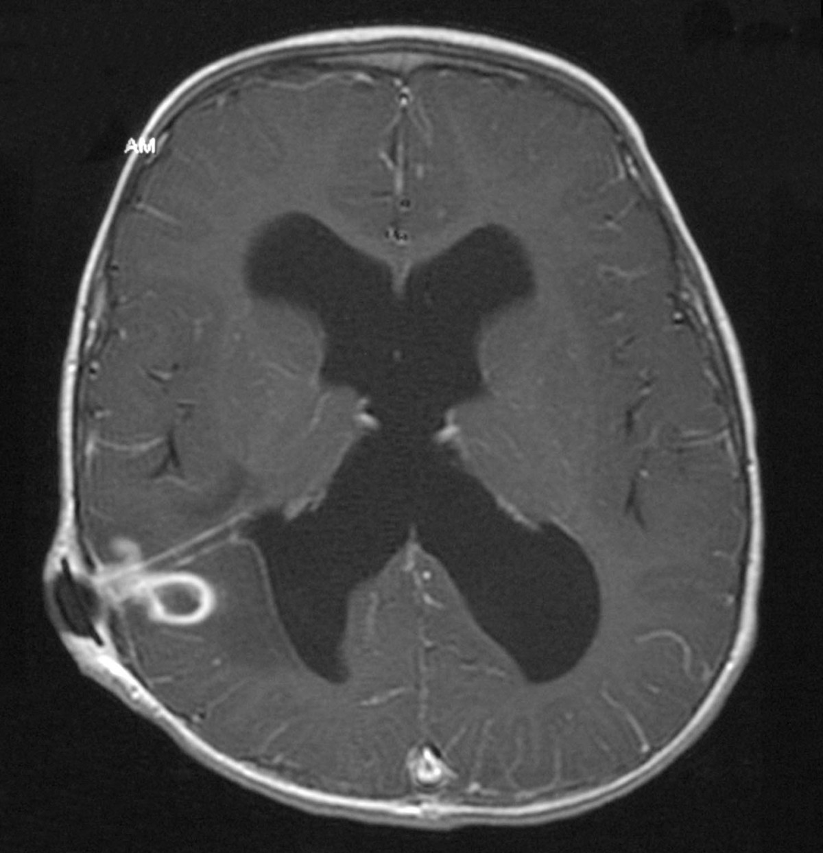 MRI (T1 + contrast): showing a small ring-enhancing lesion with mild surrounding edema adjacent to the ventricular catheter and ventricular dilatation. Jamjoom et al. Cases Journal 2009 2:110